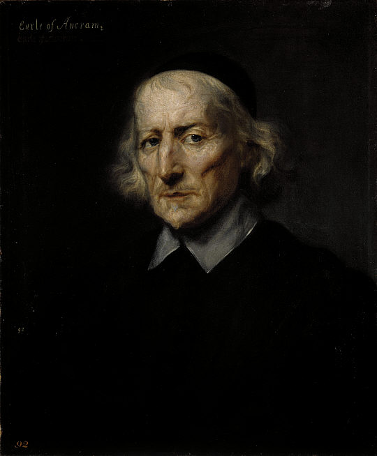 Robert Carr, 1st Earl of Ancram (c. 1578-1654)